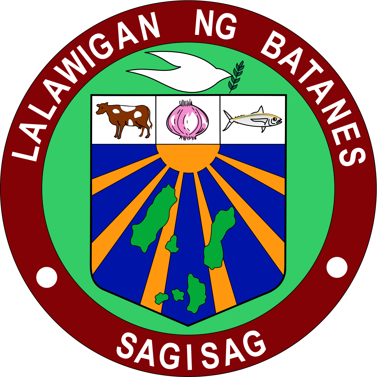 Official seal of Province of Batanes Tagalog: Opisyal na sagisag ng Lalawigan ng Batanes